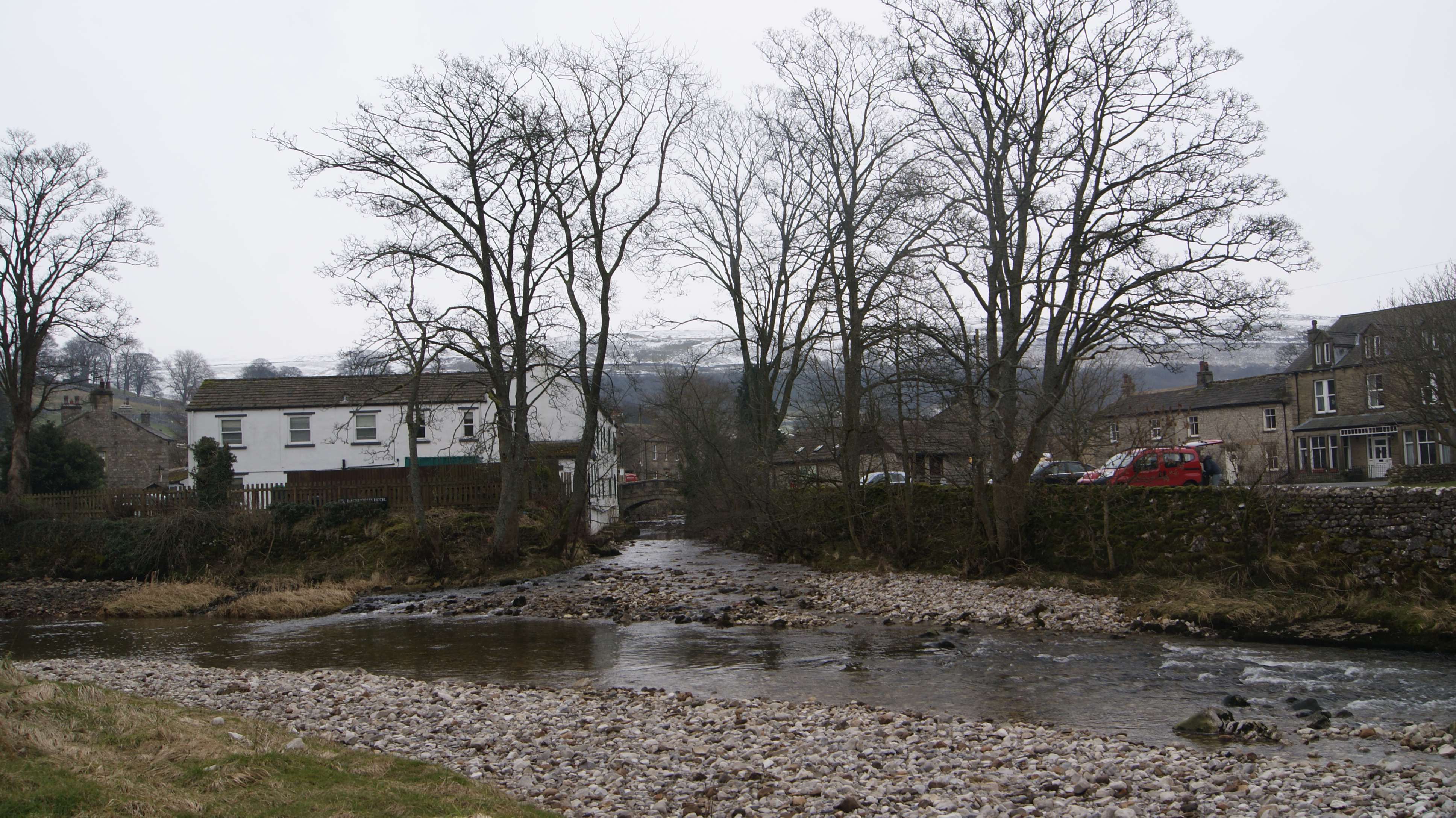 Kettlewell Beck joins the River Wharfe in Kettlewell, North Yorkshire. Taken Midday, Tuesday the 12th of February 2013.